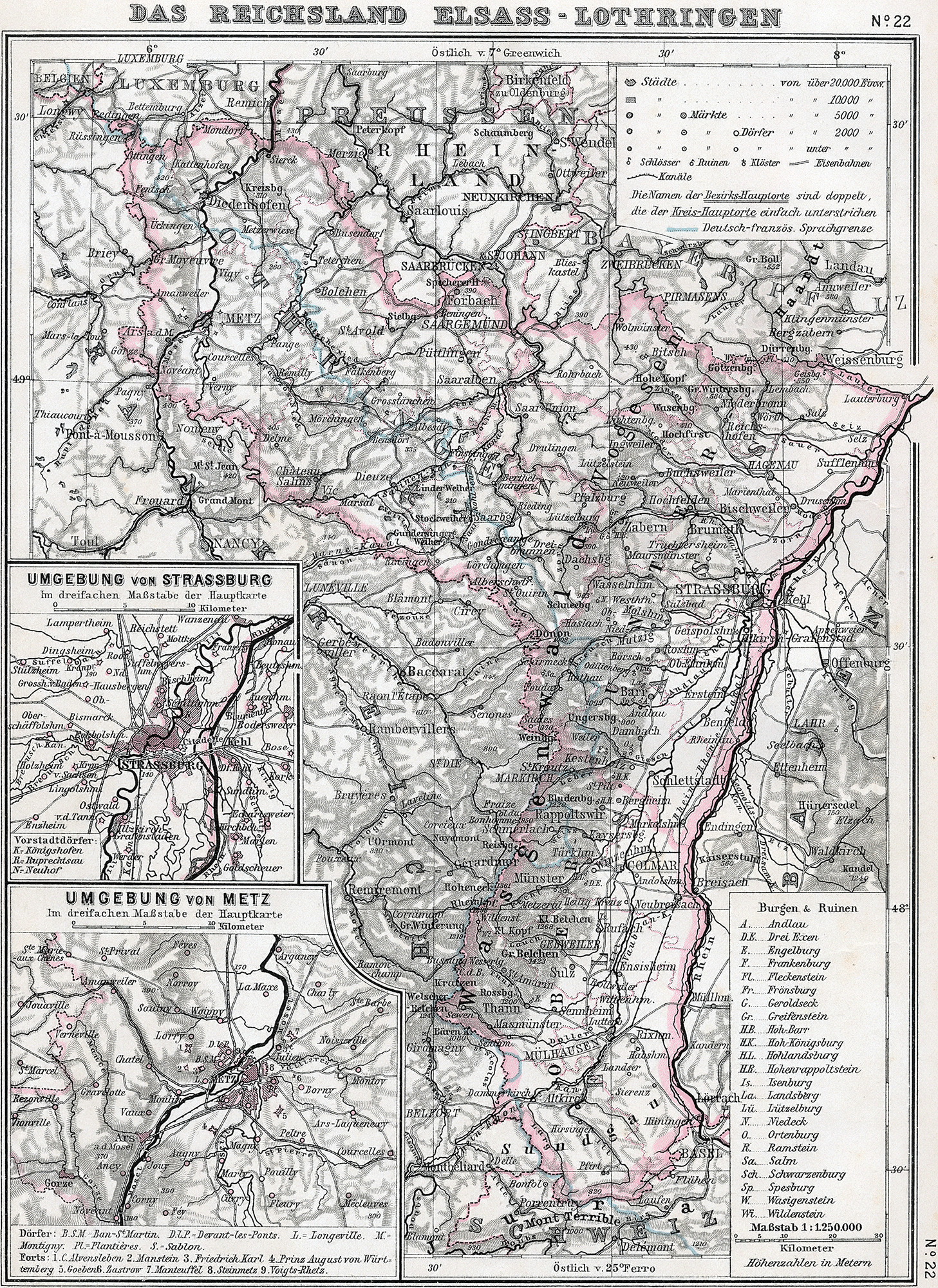 Historical map of Elsass-Lothringen (Alsace-Lorraine)